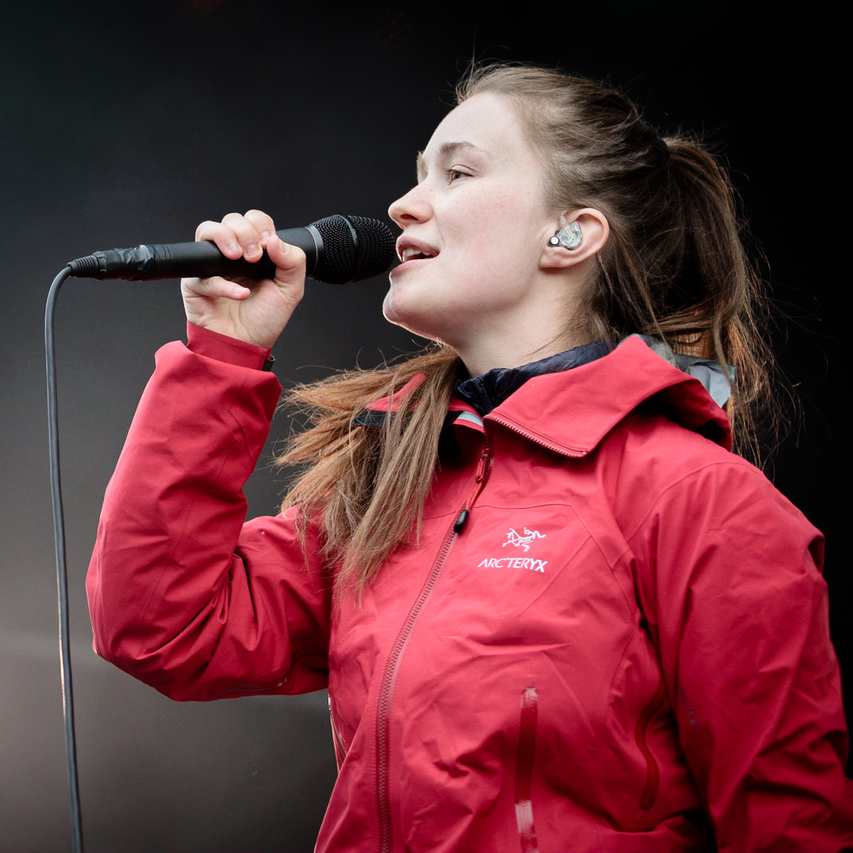 Sigrid the main stage at Grefsenkollen. The concert was part of Over Oslo and took place on 20. June 2018 in Oslo. Lineup: Sigrid (vocal)